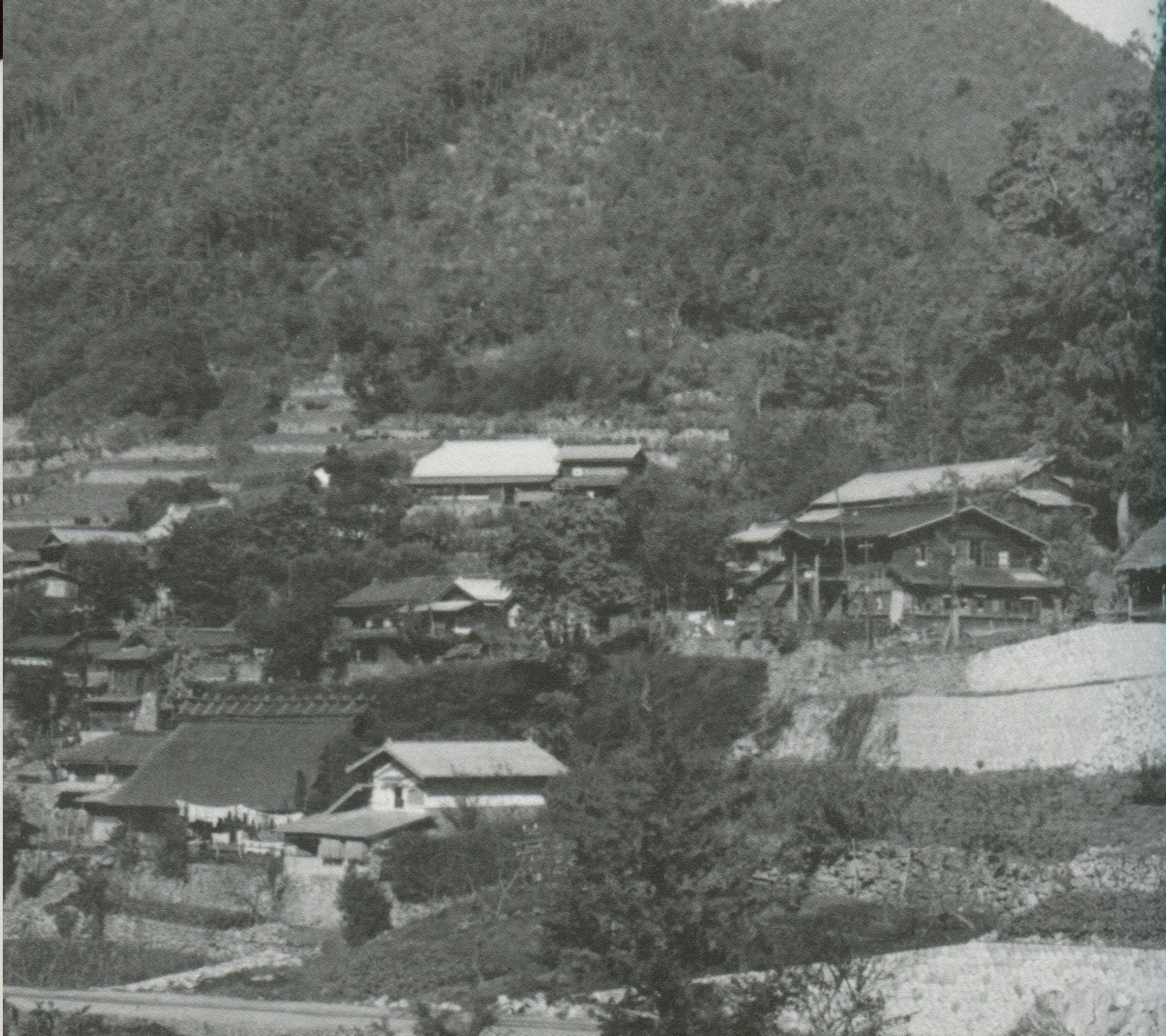 Ashikawa unben area in about 1959